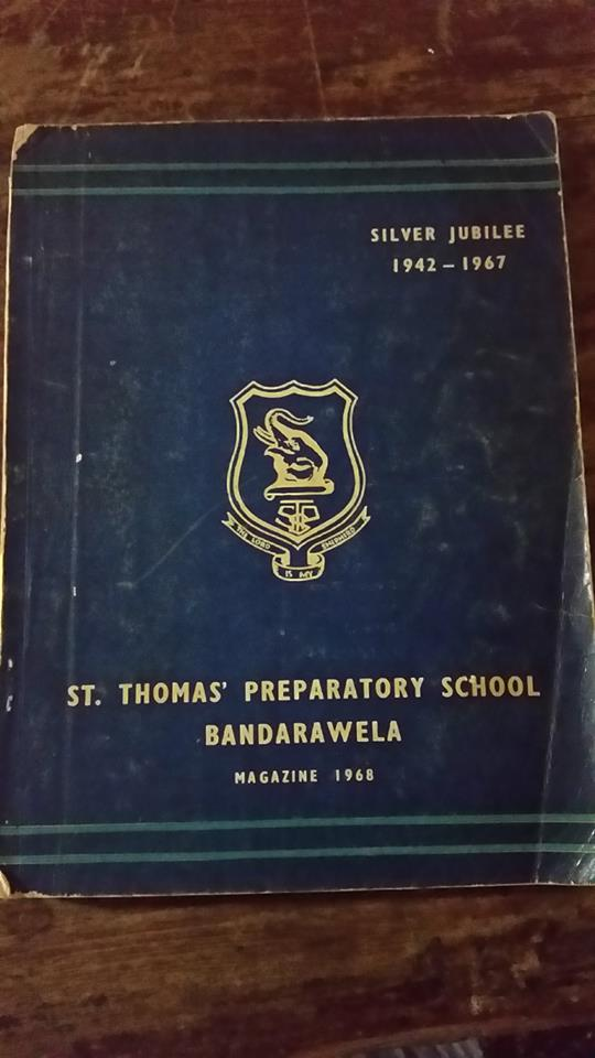 S. Thomas' Preparatory School, Bandarawela, College Magazine 168